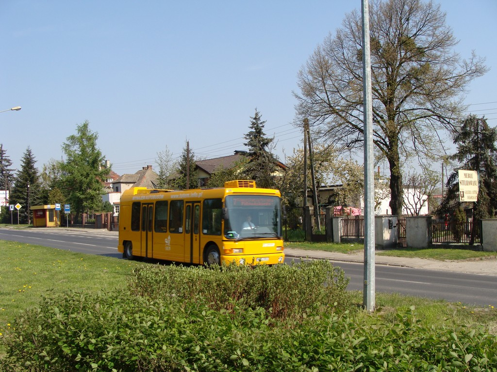 DAB 11-0860 S bus in Śrem, Poland. Totem Śrem operator.